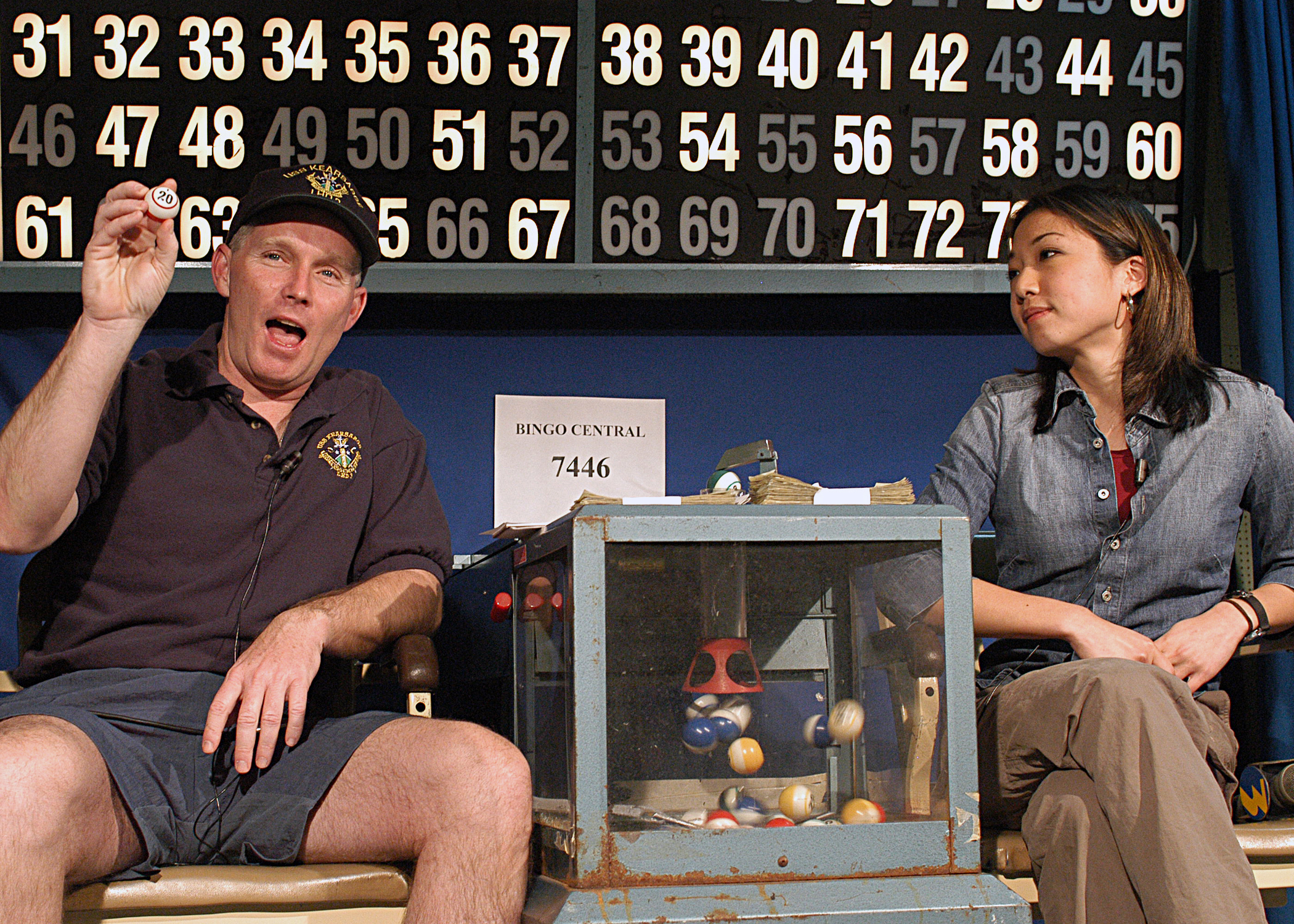 The Arabian Gulf (Mar. 9, 2003) -- Captain Terry McKnight, Commanding Officer of USS Kearsarge (LHD 3) and Ms. Stephanie Sy, a Norfolk, Va. local-television personality host "Big Bucks Bingo" for Navy and Marine Corps Relief. USS Kearsarge is deployed in the Persian Gulf in support of Operation Enduring Freedom. U.S. Navy photo by Photographer's Mate Airman Kenny Swartout. (RELEASED)